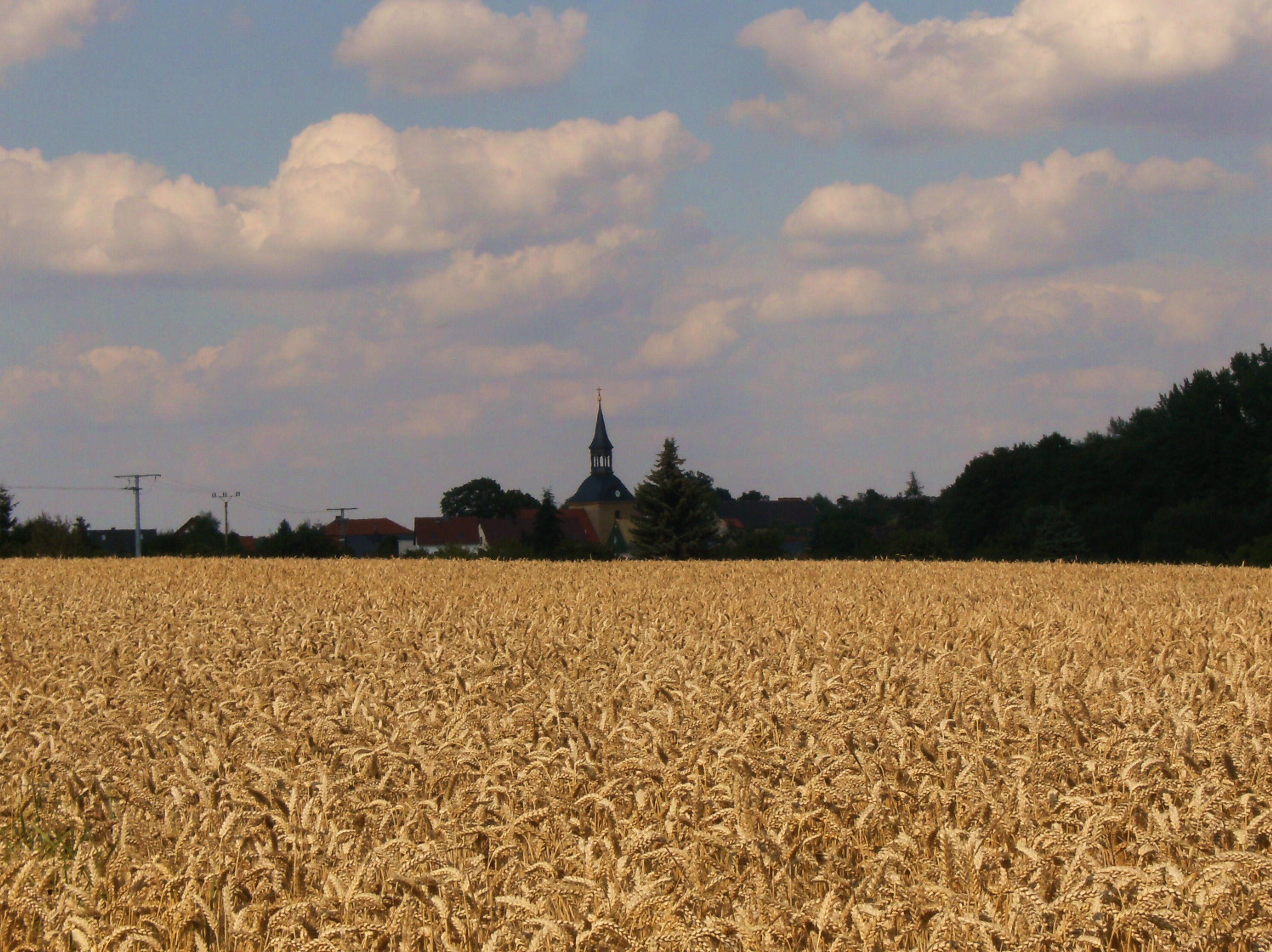 Gera Großaga, village view.